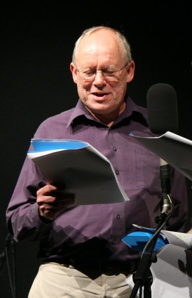 Graeme Garden during a recording of the BBC Radio 4 programme You'll Have Had Your Tea.